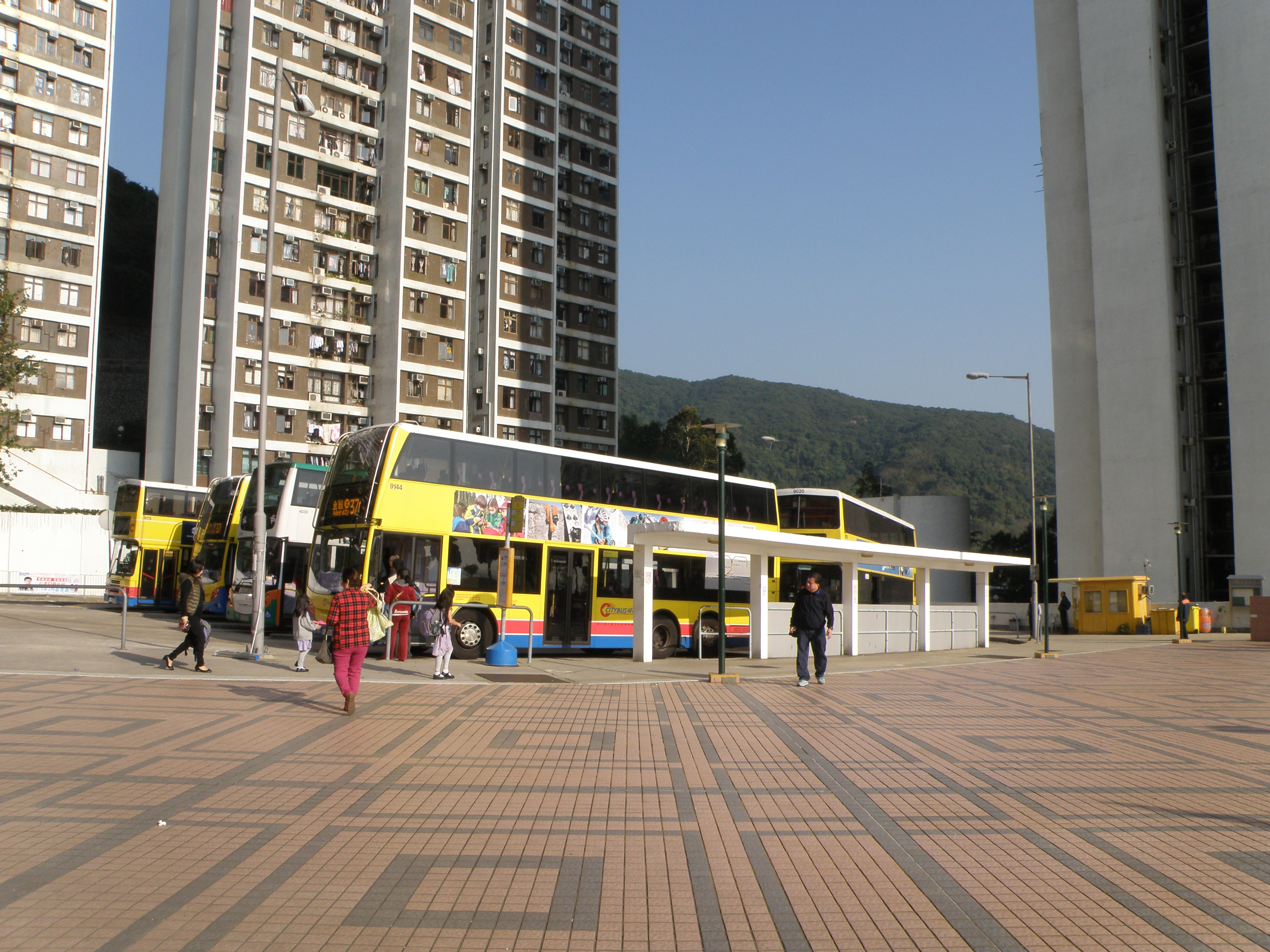 Chi Fu Fa Yuen Bus Terminus in Pok Fu Lam, Hong Kong.